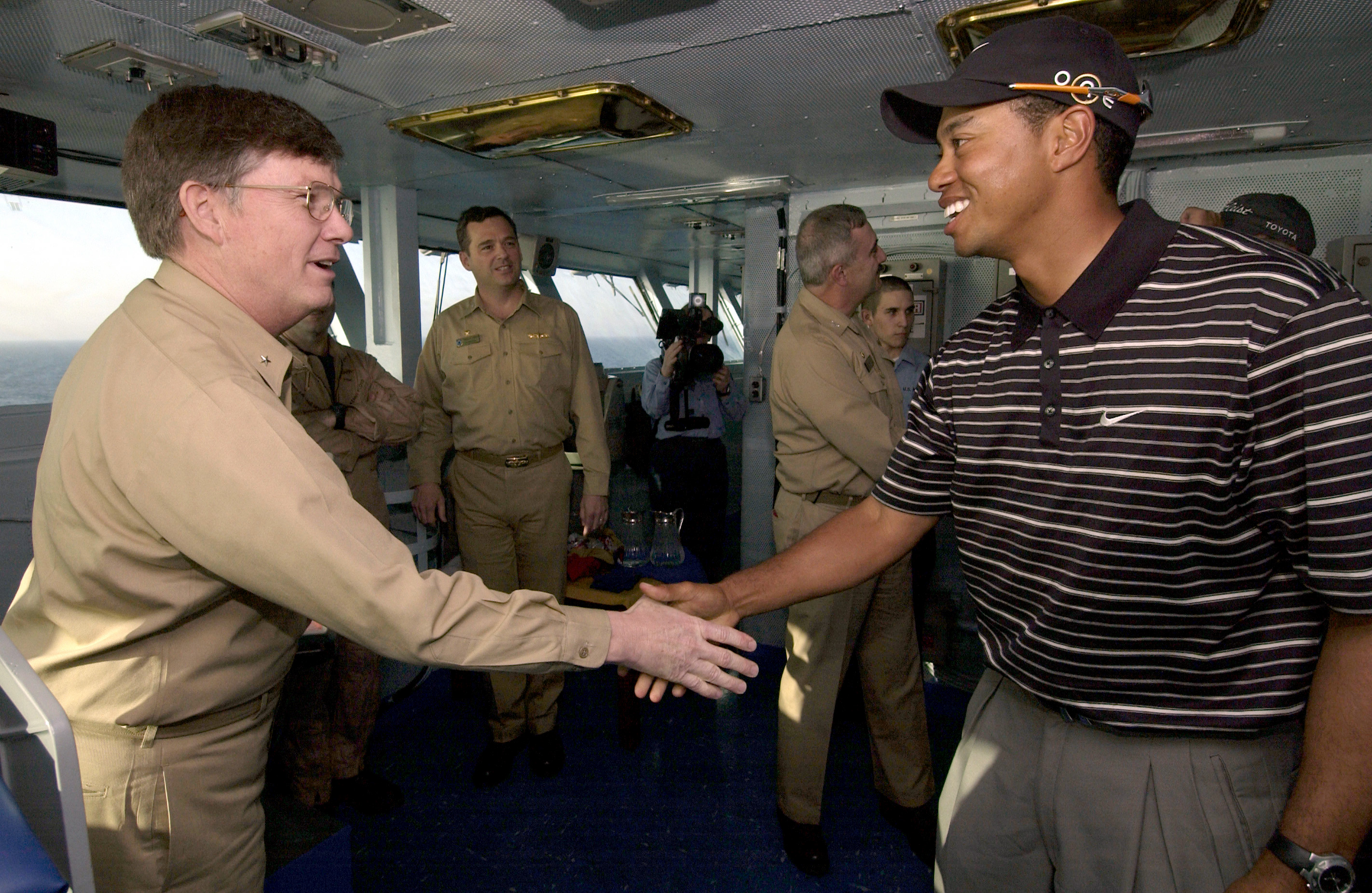 Arabian Gulf (March 3, 2004) – Tiger Woods meets Commander Carrier Group Eight (CCG-8) Rear Adm. Denby H. Starling II, on the flag bridge aboard the aircraft carrier USS George Washington (CVN 73). Tiger Woods accompanied by his fiancé Elin Nordegren, PGA player Mark O'Meara, and caddies Steve Williams and Greg Rita visited the Norfolk, Va. based carrier in the Arabian Gulf before participating in the European PGA Tour's Dubai Desert Classic on Thursday, March 4. The George Washington Carrier Strike Group (CSG) and Carrier Air Wing Seven (CVW-7) are deployed to the Arabian Gulf in support of Operations Iraqi and Enduring Freedom. U.S. Navy photo by Photographer's Mate 1st Class Brien Aho. (RELEASED)